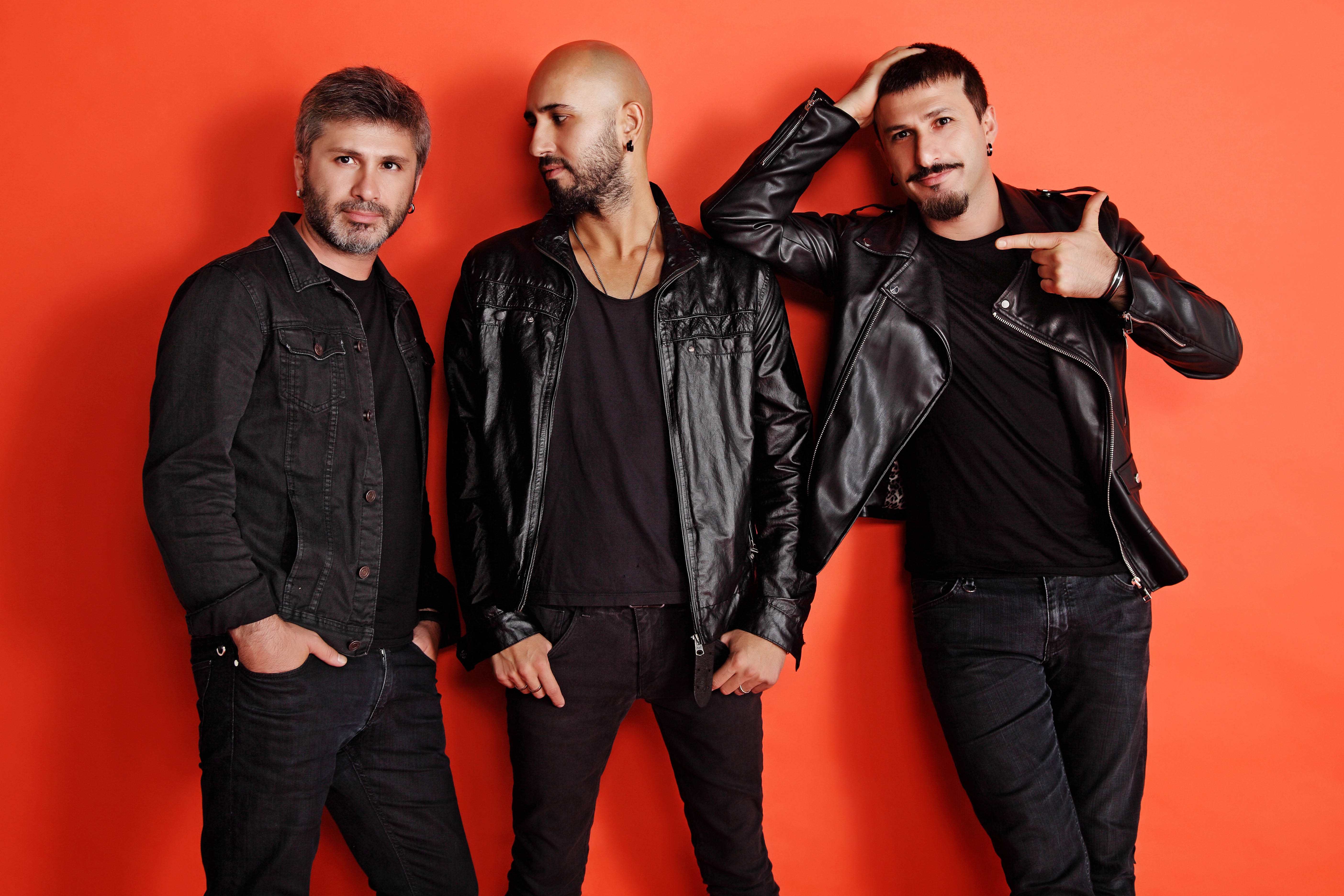 Redd grup fotosu